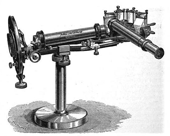 Solar automatic spectroscope of John Browning c.1831-1925